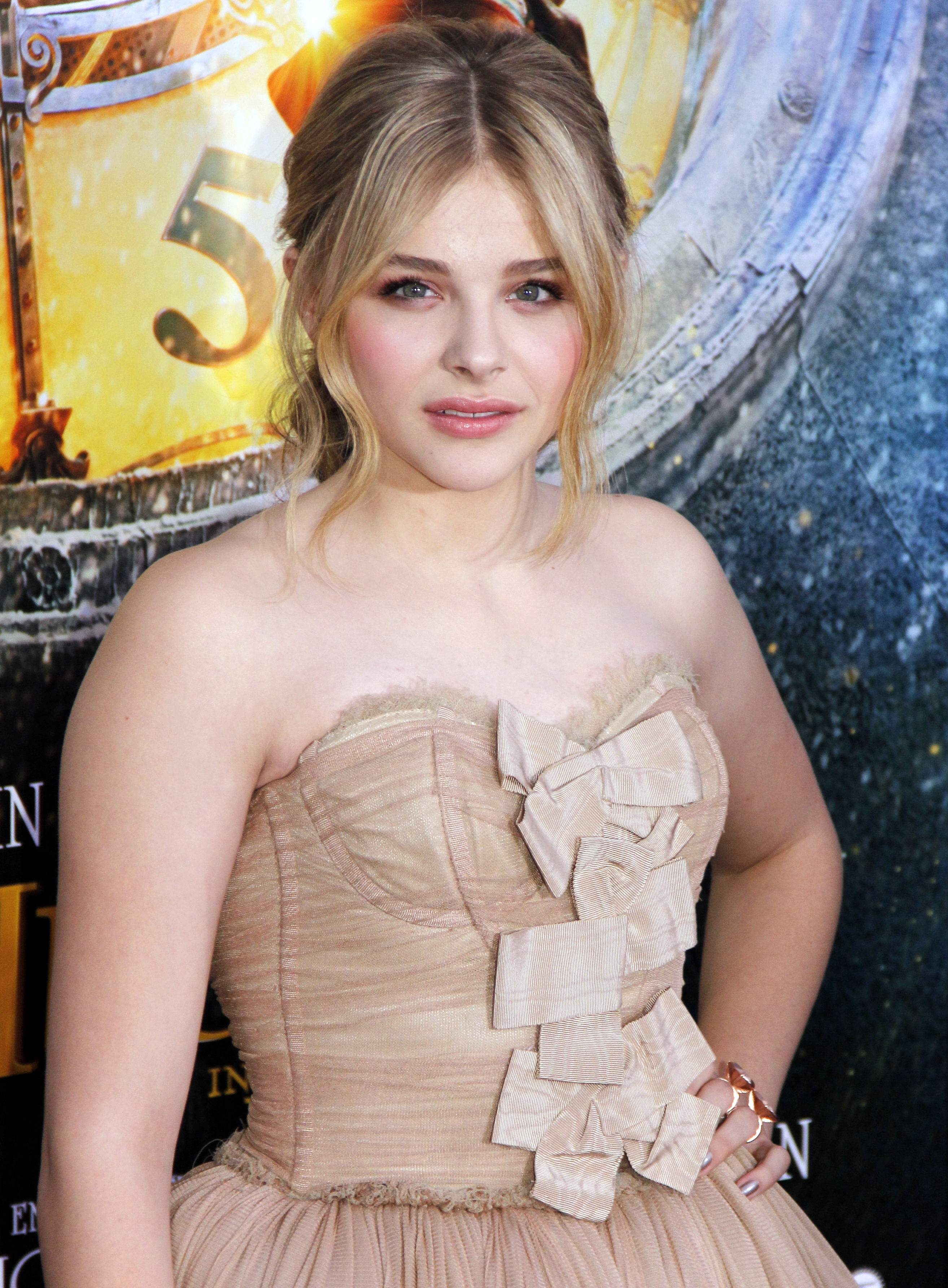 Chloë Grace Moretz at the Hugo Premiere, New York City 2011.